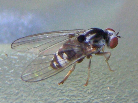 A female Platypezid fly of species Polyporivora picta.